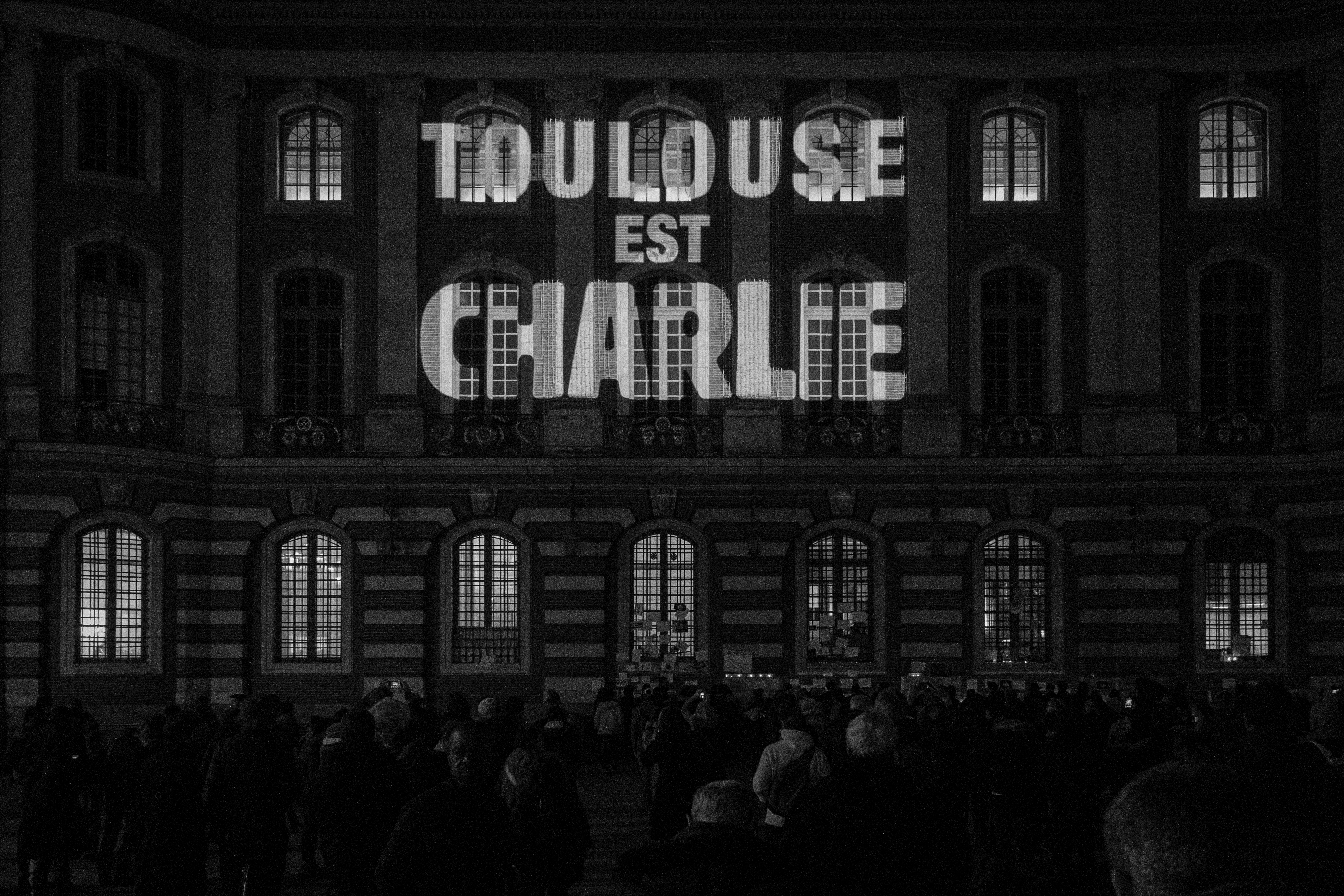 Words Toulouse est Charlie (Toulouse is Charlie) displayed on Capitole the day after the 2015 Charlie Hebdo shooting.